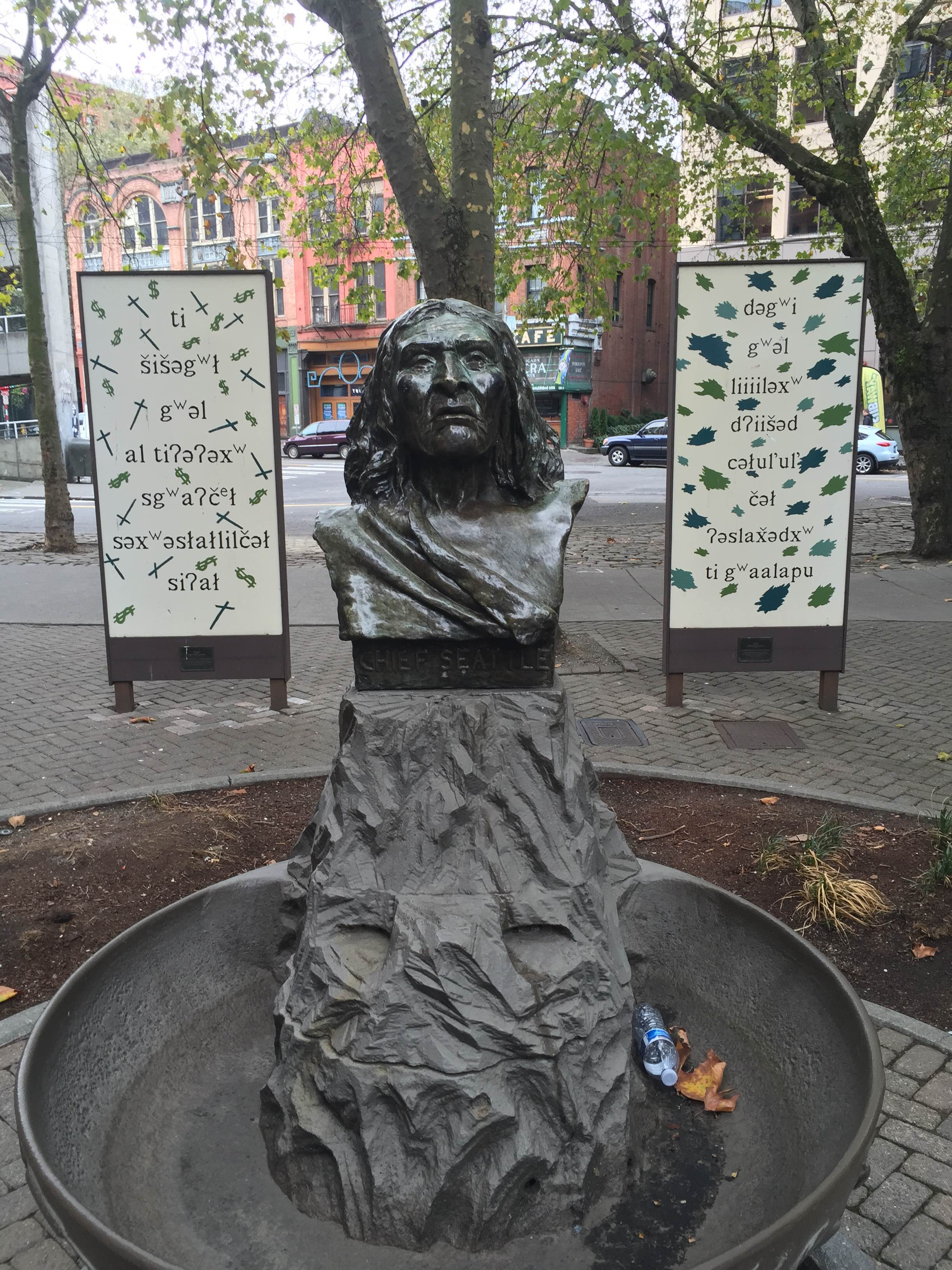 The Lushootseed language text reads: ti šišəgʷł gʷəl al tiʔəʔəxʷ sgʷaʔčəł səxʷəsłałlilčəł siʔał dəgʷi gʷəl liiiiləxʷ dʔiišəd cəłul’ul’ čəł ʔəslax̌ədxʷ ti gʷaalapu Photo by Matt Cecil, posted by permission.